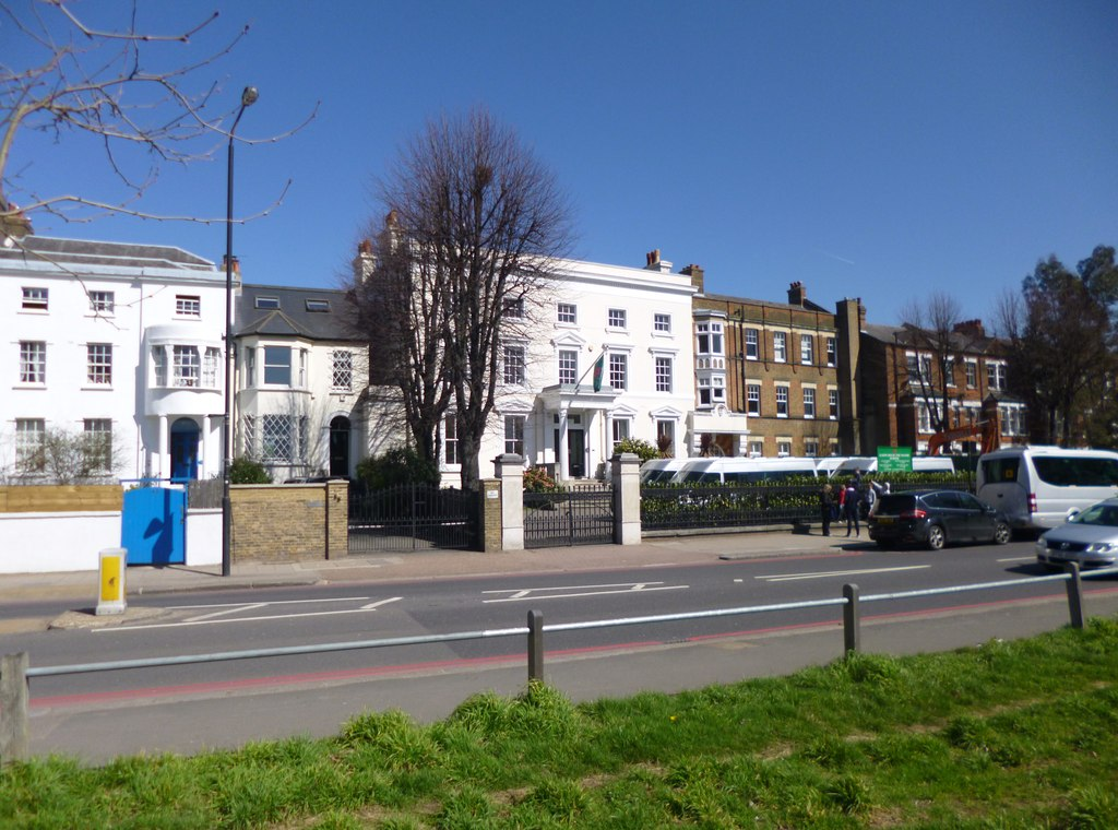 Eaton House, the Manor School, Clapham.